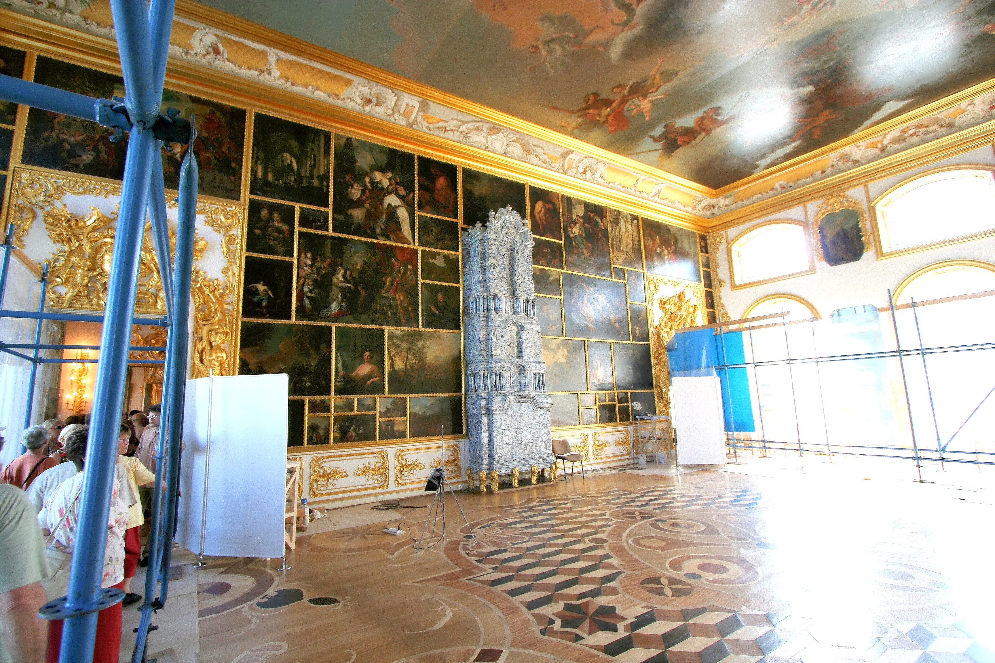 Pushkin (Russia), Picture hall of the Catherine Palace